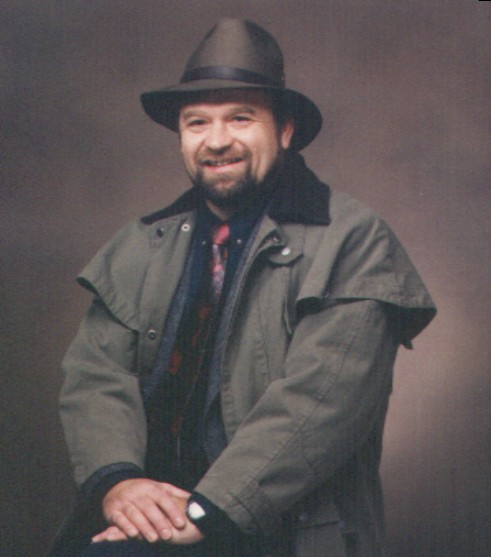 Picture of Jacek Szmatka